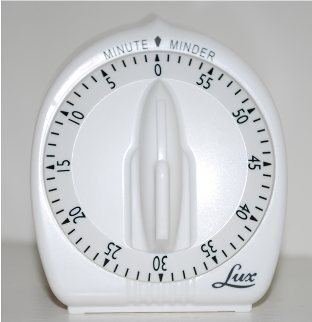 This is a Lux Products Minute Minder, 60 minute windup timer model 2428 color white.